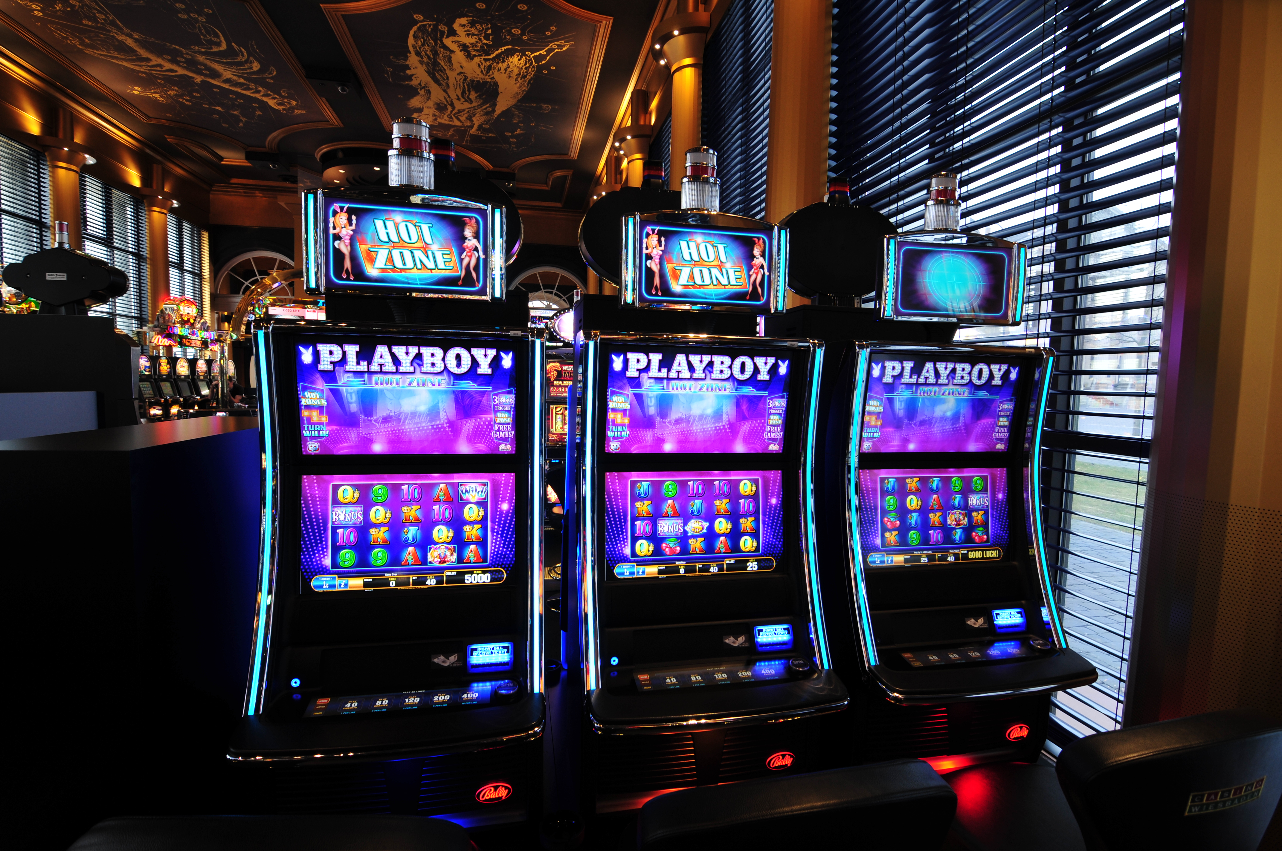 Wiesbaden, Germany, Spielbank Wikipedia im Landtag – Hessen 26.–28. Februar 2013 in Wiesbaden Fragen zur Nachnutzung Wenn Sie Fragen zur Nachnutzung dieses Bildes haben, können Sie sich jederzeit gern an wenden